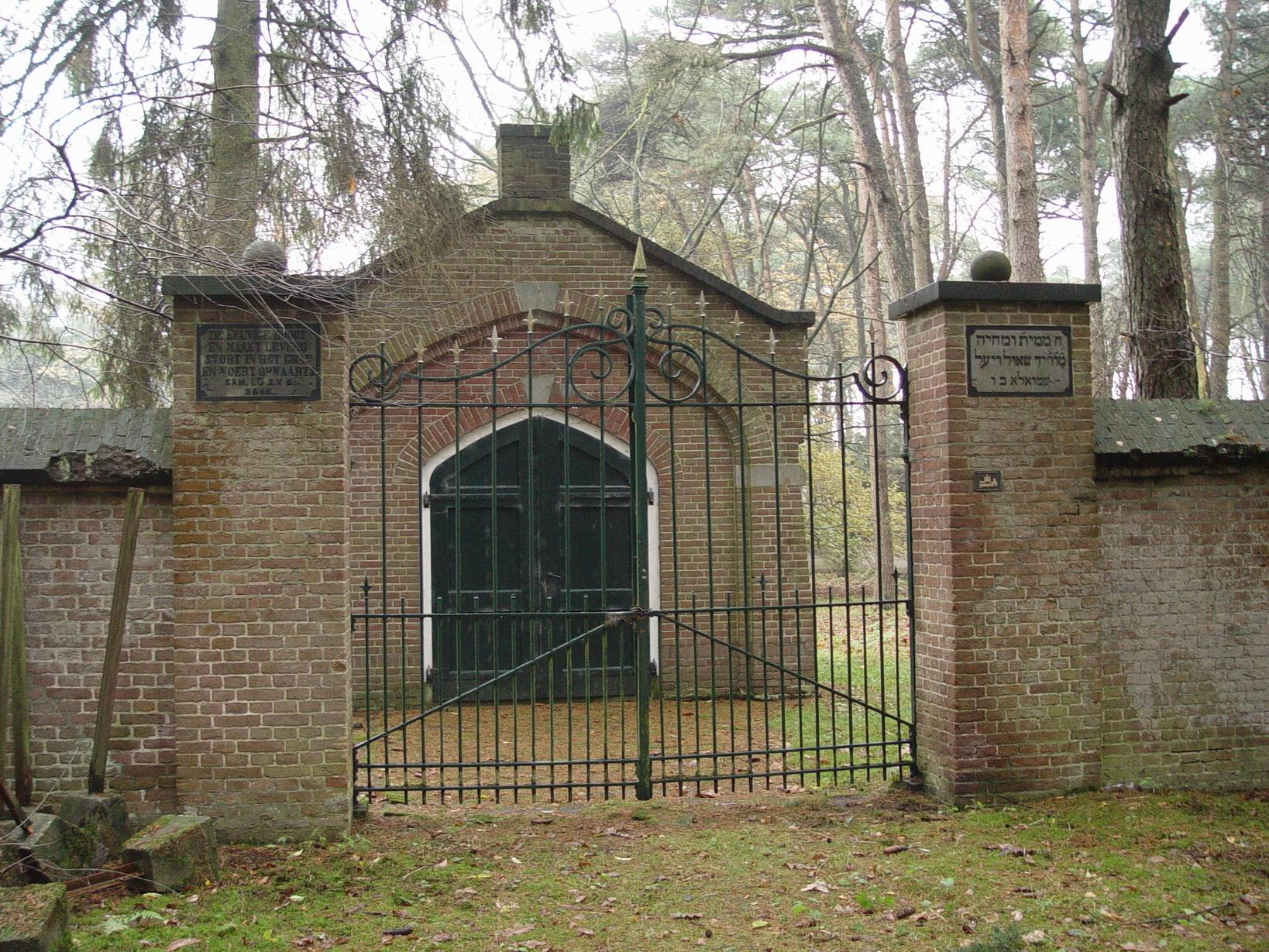 יְהוָה מֵמִית וּמְחַיֶּה מֹורִיד שְׁאֹול וַיָּעַל Yahweh kills and makes alive; he brings down to the grave and raises up. (1 Samuel 2:6)